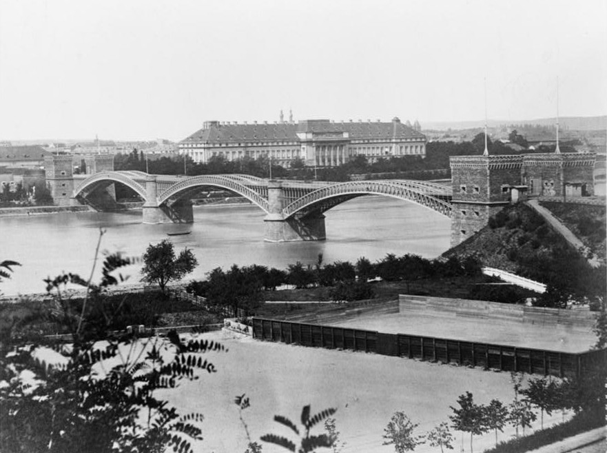 View of the Pfaffendorfer railway bridge in Koblenz, Rhineland-Palatinate (Germany), in the late 19th century. The former palace of the Kürfürst of Trier is in the background. Note: At the Library of Congress this bridge is wrongly identified as a bridge in "Frankfort", probably meaning Frankfurt/Main.